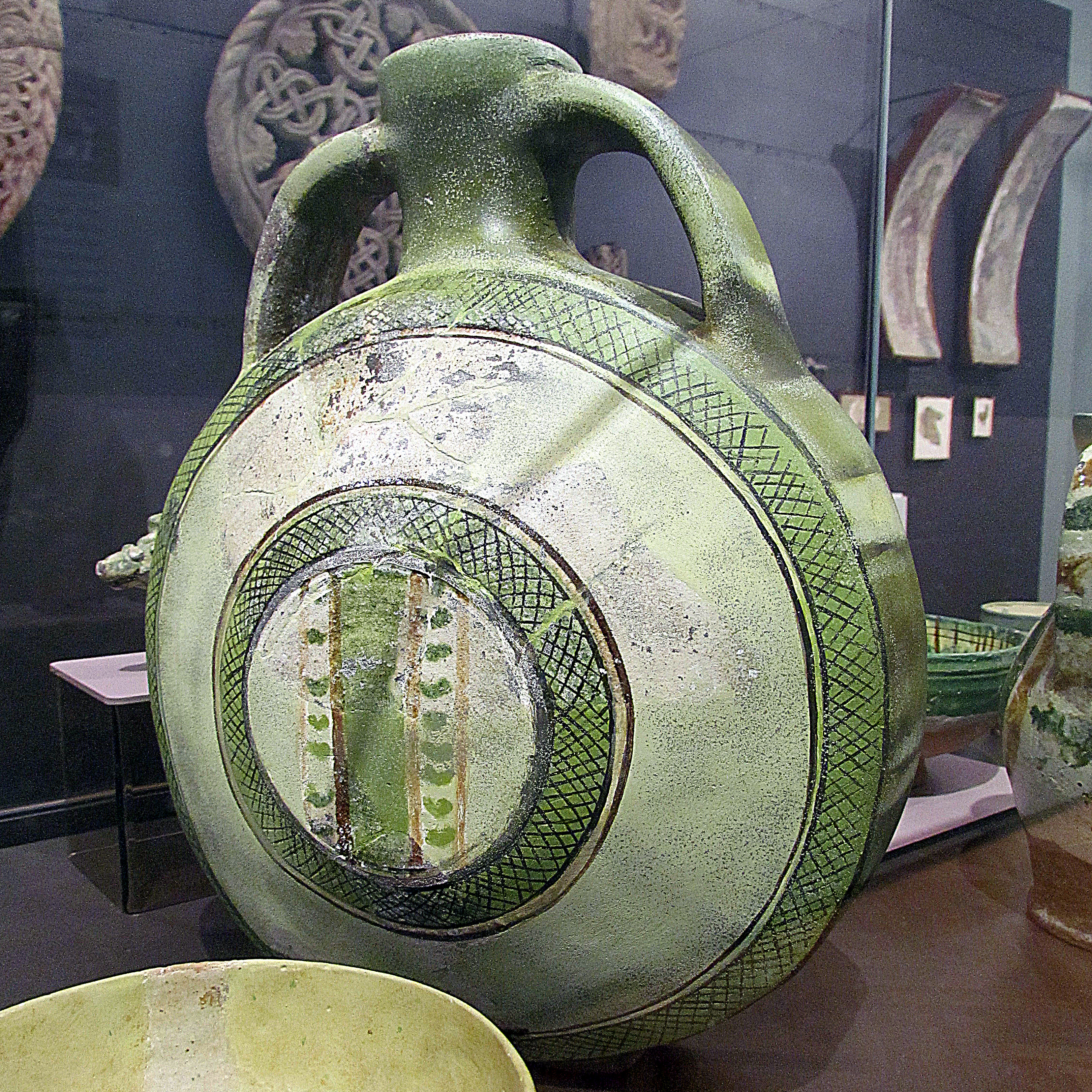 Buklija (ceramic flask), 18th c, Studenica monastery, National Museum of Serbia